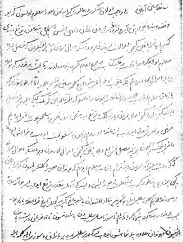 Ehvalati Qarabagi (1888)